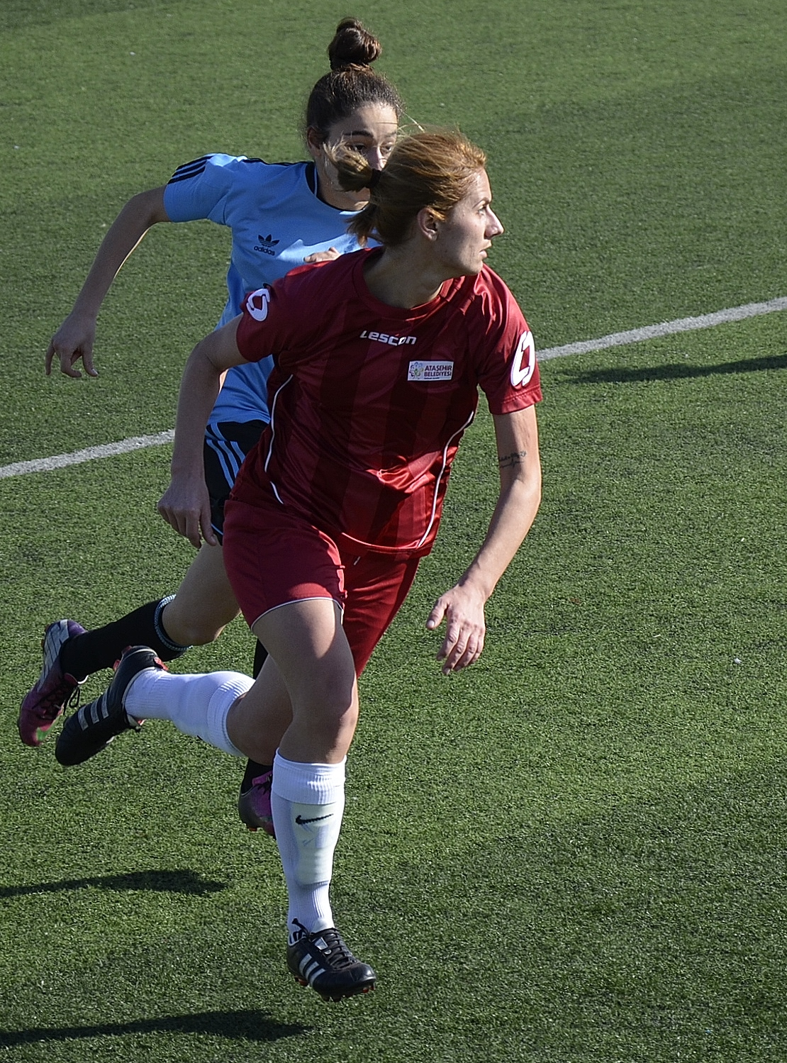 Mevlüde Öztürk for Ataşehir Belediyespor in the 2013-14 season